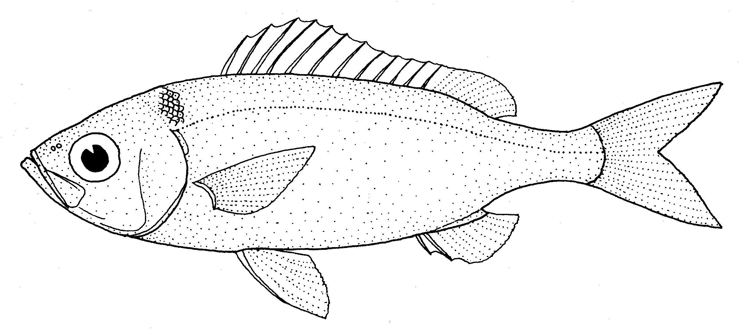 Plagiogeneion rubiginosum (Rubyfish)